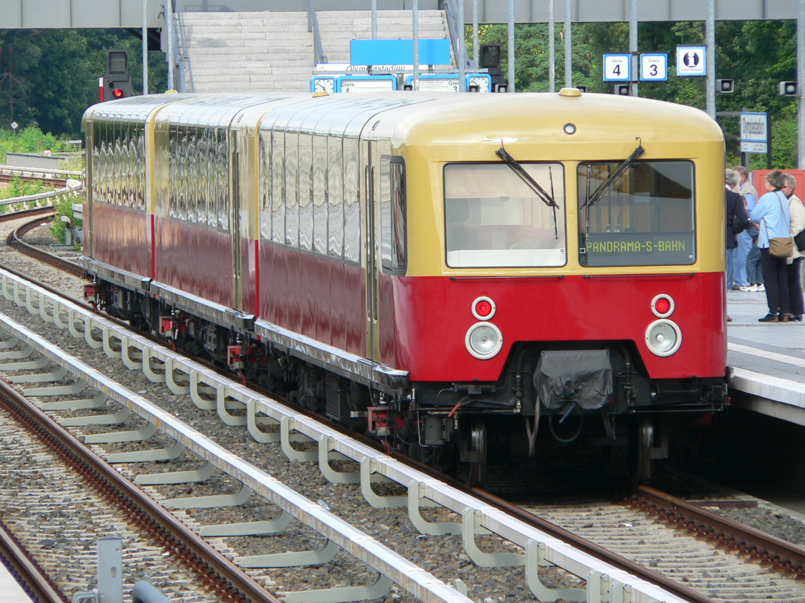 type 488 of the Berlin S-Bahn (panorama train)